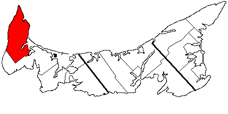 Adapted from existing Prince Edward Island election results maps to depict a specific electoral district.